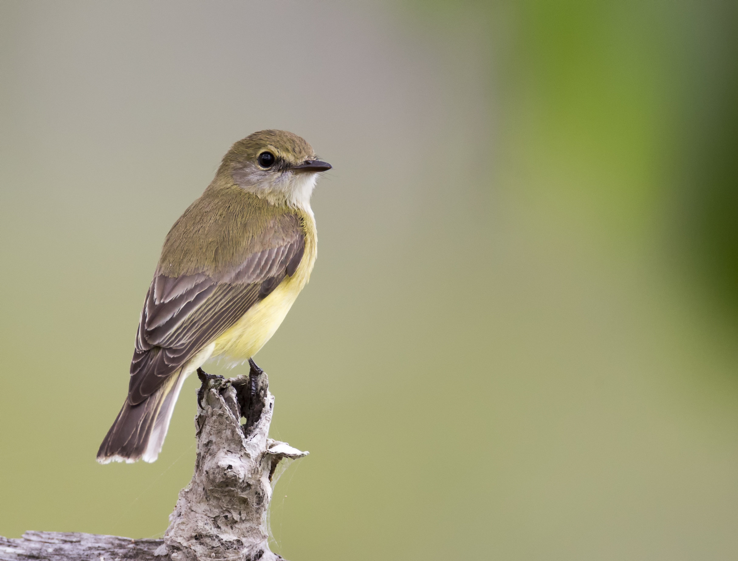 A little cutie who fell in love with the camera. He was probably 10 meters from the 800. I think I like birds that do that!